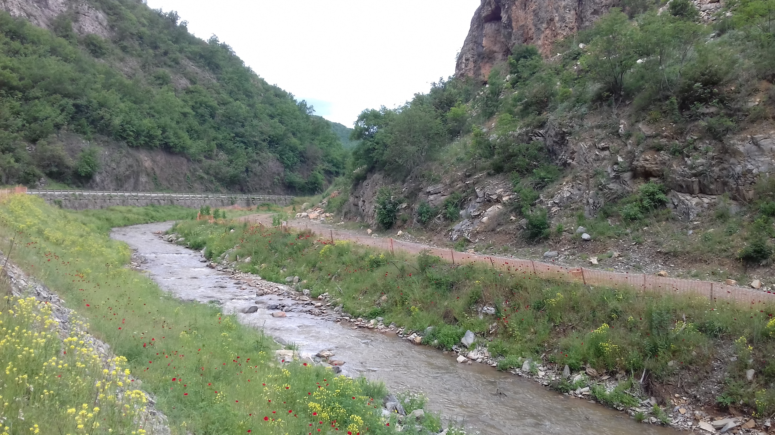 Raec river in Macedonia